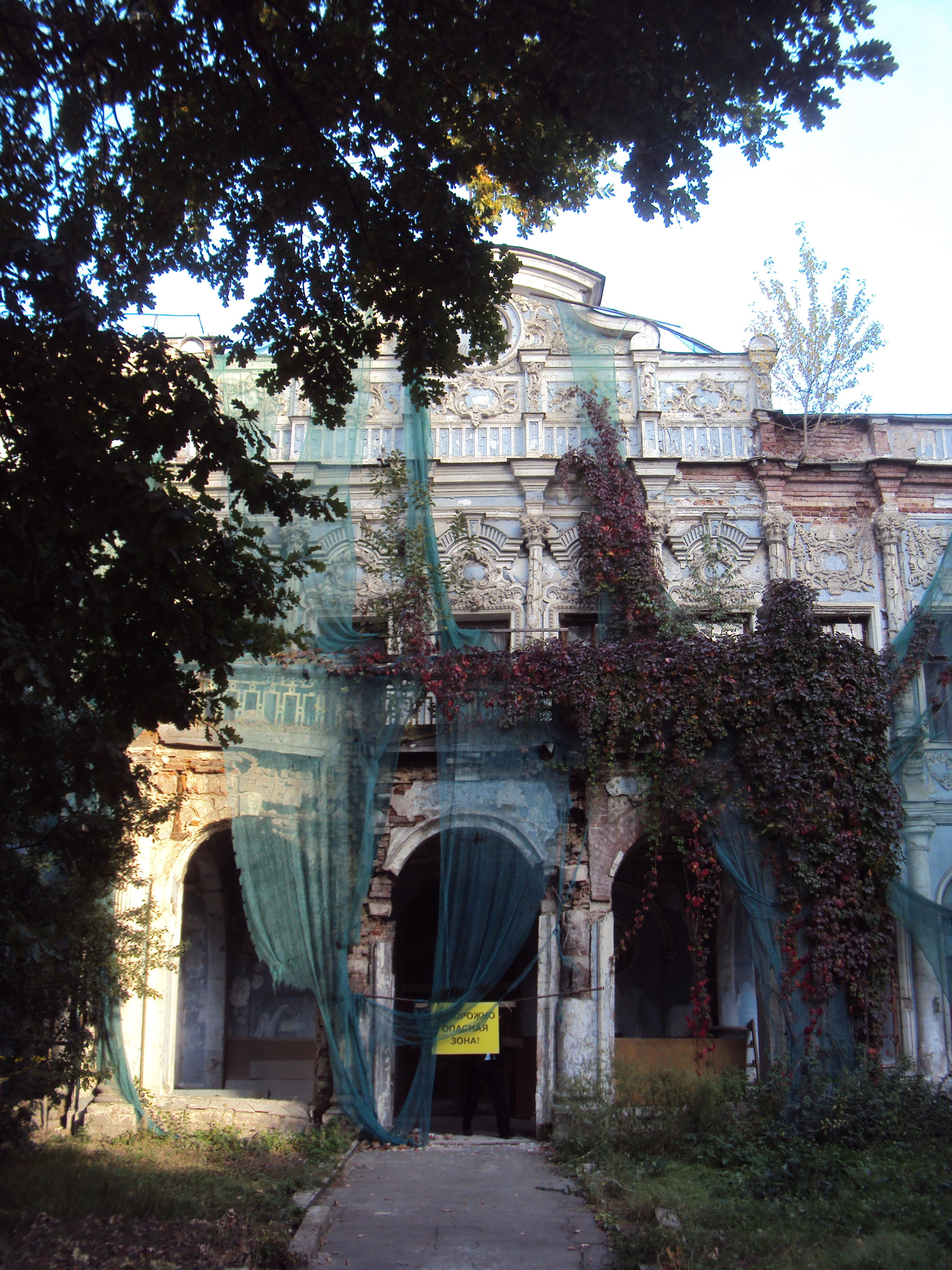 The House Of Orlov-Denisov